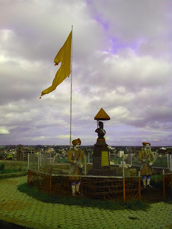 A bust statue of the founder of the Maratha empire, Chhatrapati Shivaji maharaj